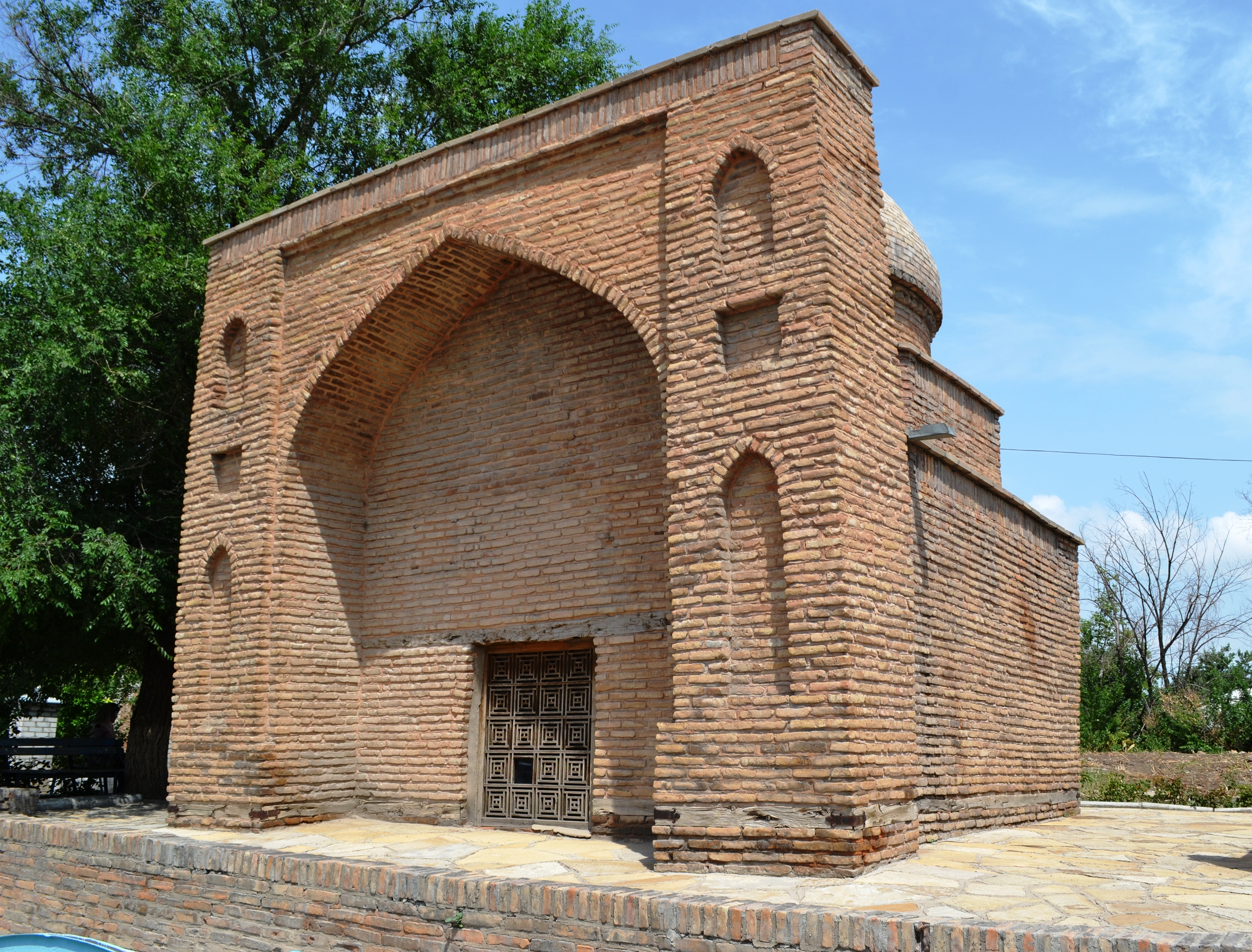 Karashash Ana